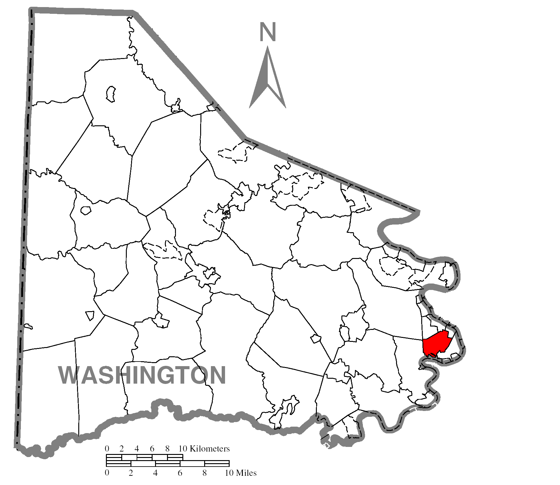 Map of Washington County higlighting Long Branch.